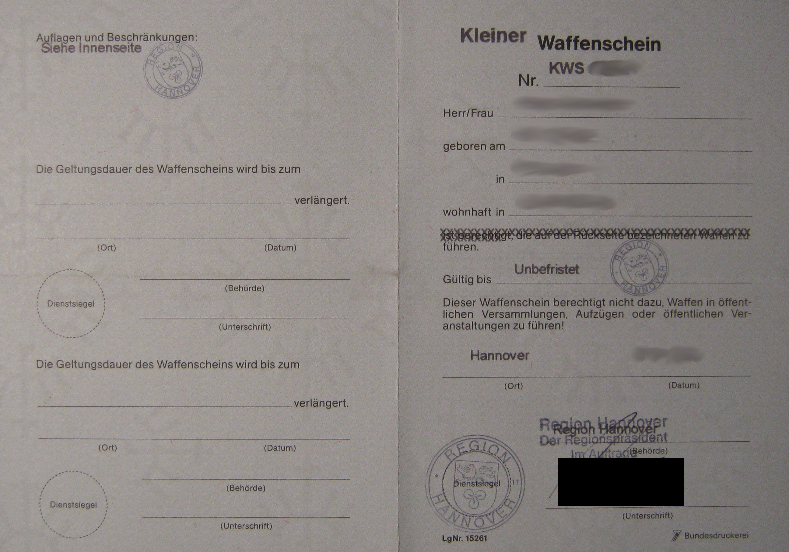 Firearms license for small arms